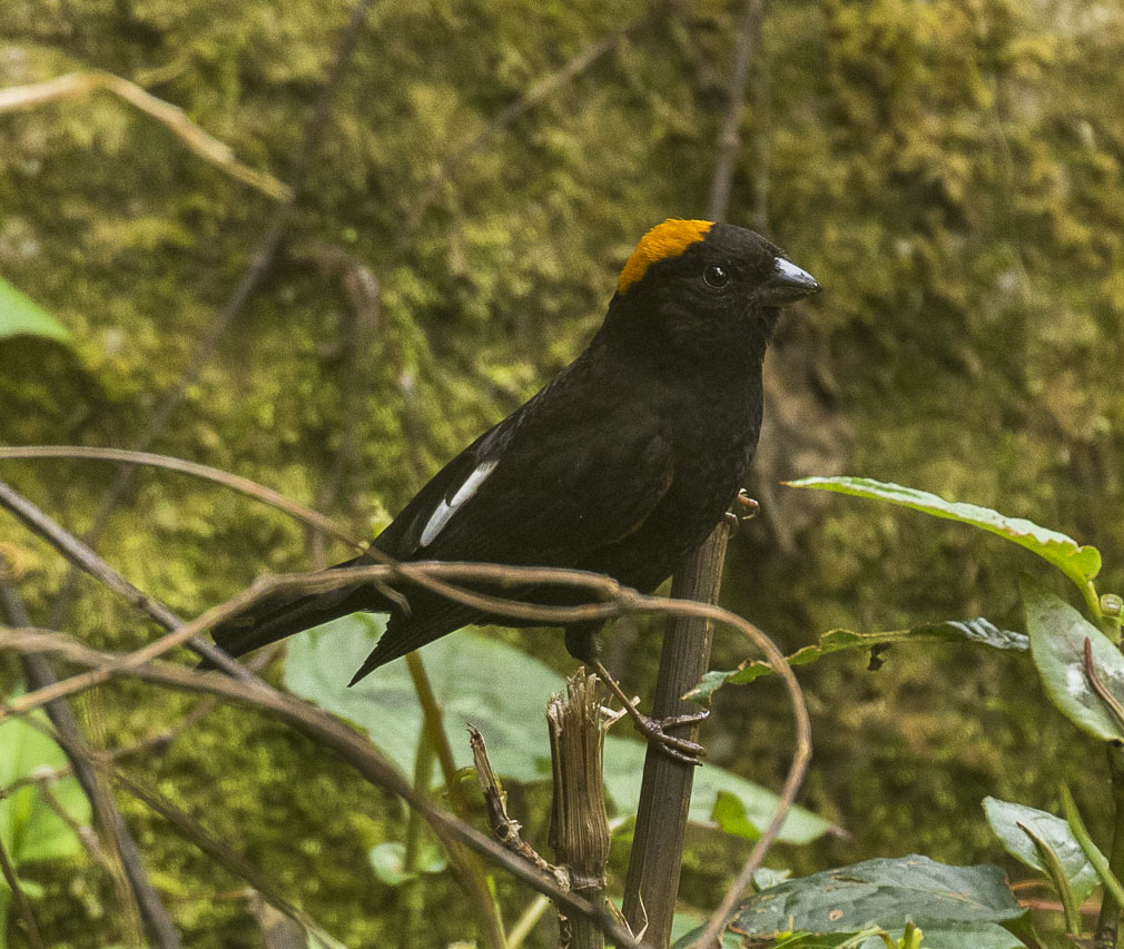 Gold-naped Finch - Eaglenest - India_FJ0A0289